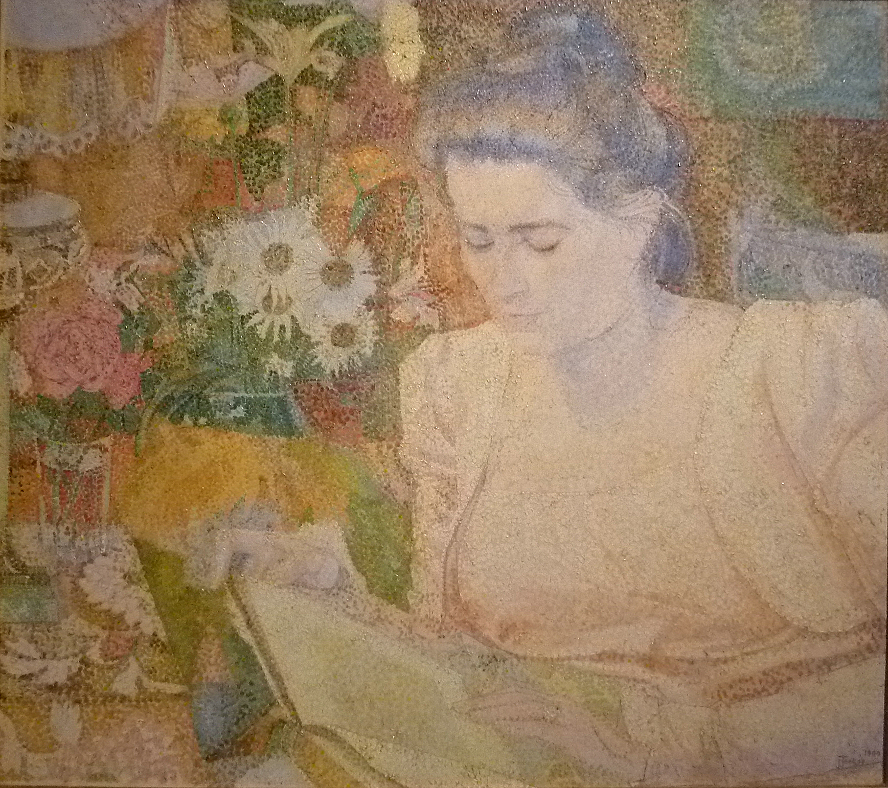 "Portrait of Marie Jeanette de Lange" (1900), oil on canvas by Jan Toorop; Rijksmuseum, Amsterdam. She chaired the Vereeniging voor Verbetering van Vrouwenkleeding (Association for the Improvement of Women's Clothing), an organization that advocated for looser fitting clothing compared to the corsets of the era.